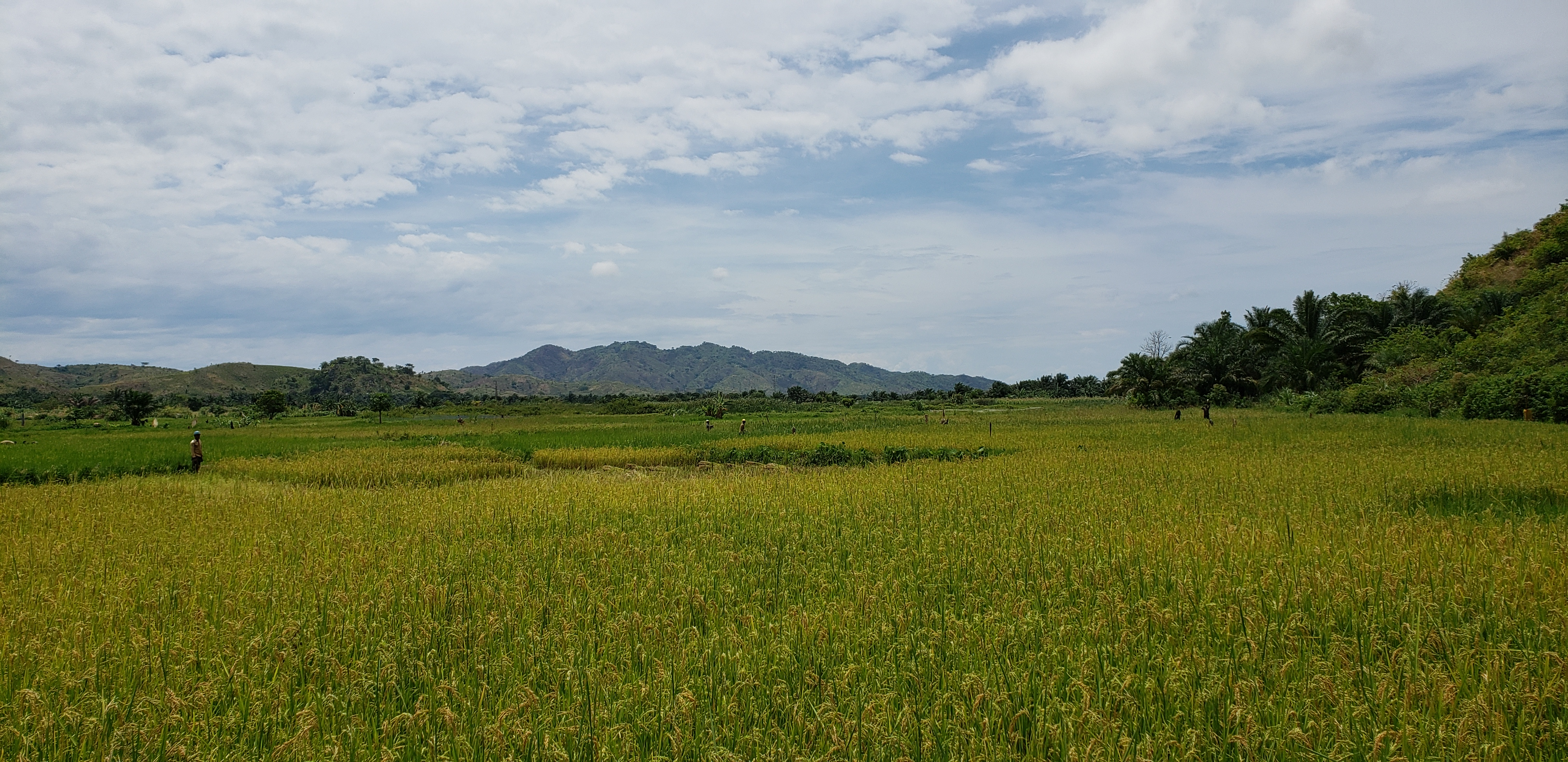 This is an image with the theme "Africa on the Move or Transport" from: Democratic Republic of the Congo